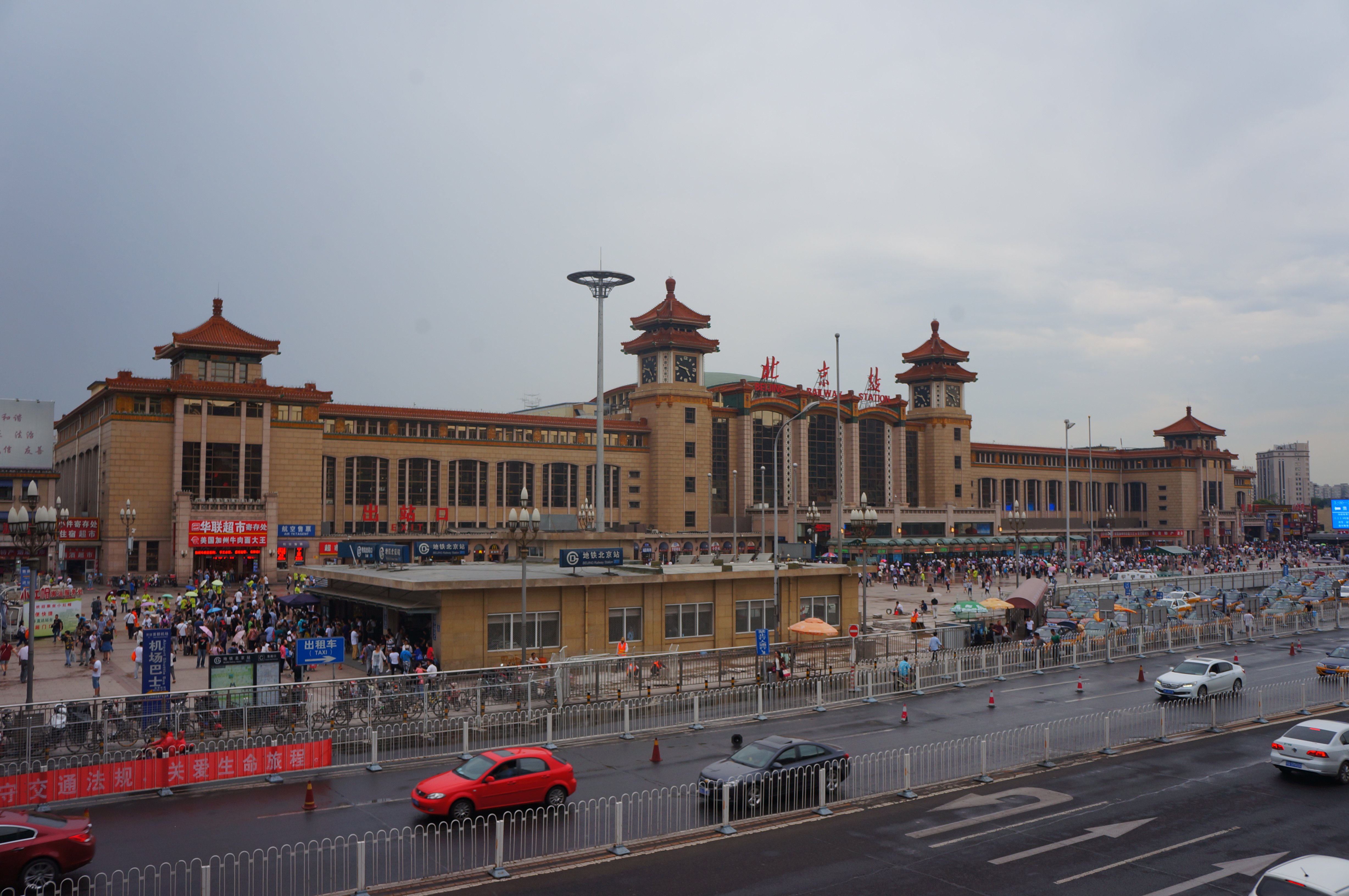 201606 Facade of Beiing Station